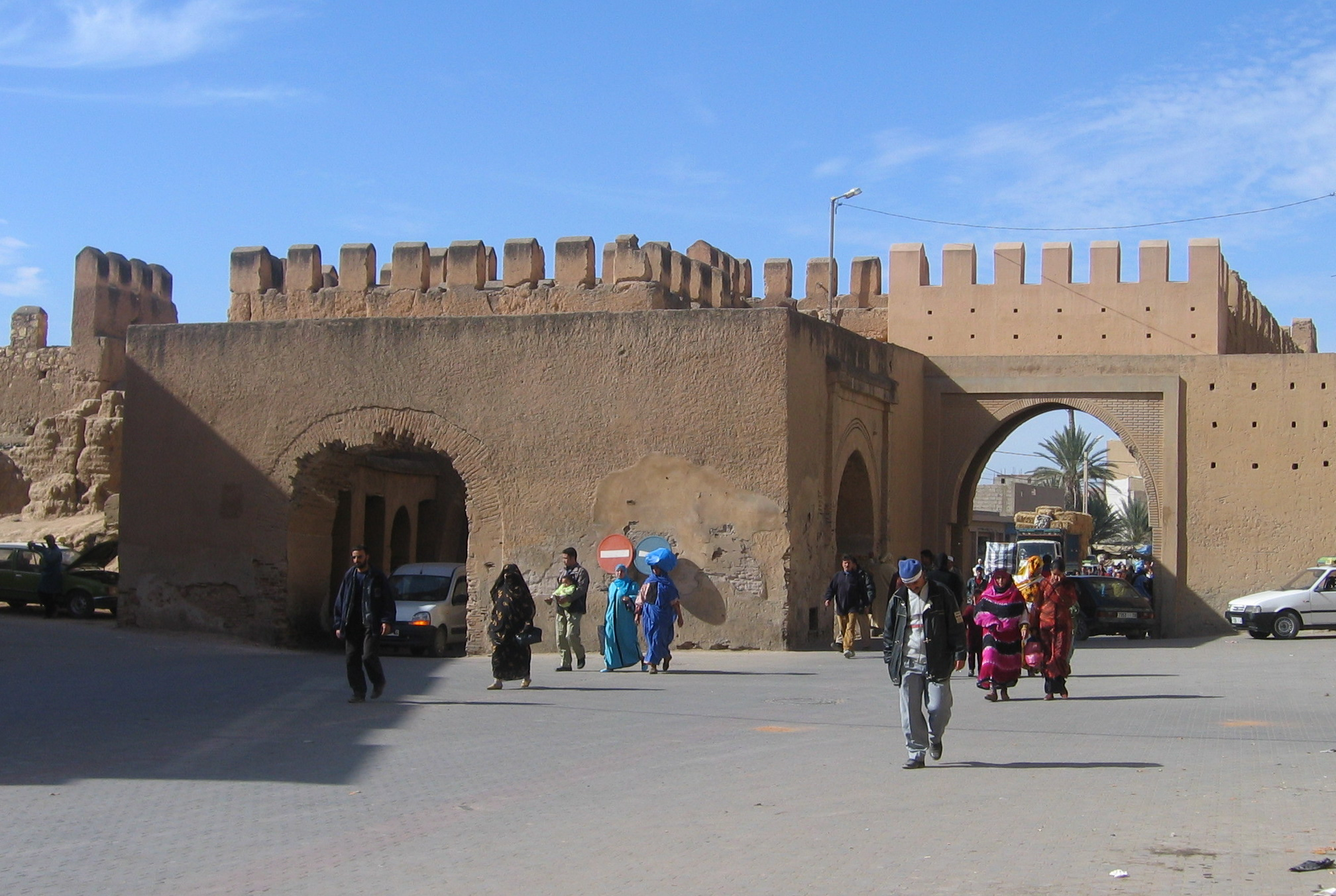 City gates at Taroudant, Morocco (The one on the right appears to be a modern addition to allow two-way traffic)